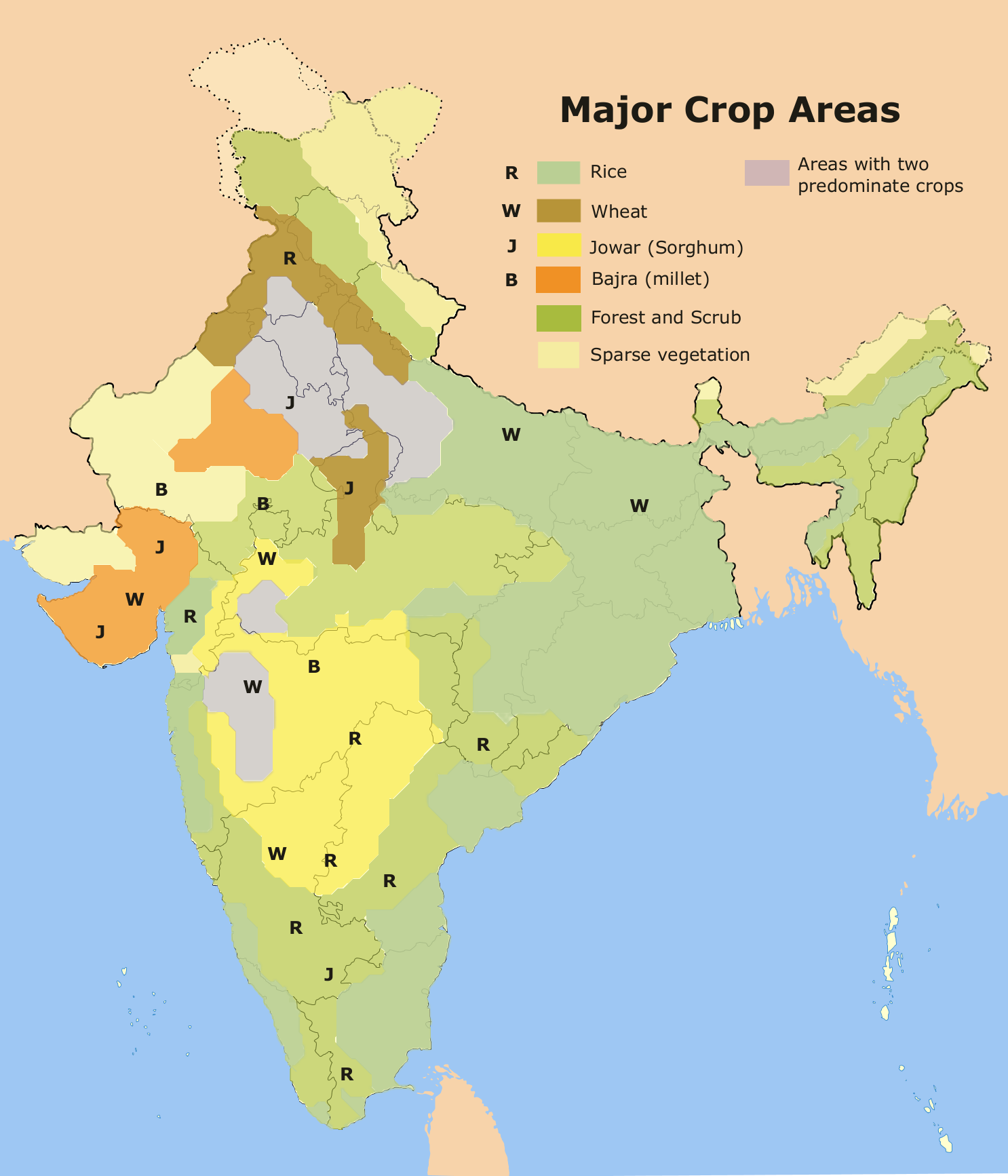 A map on the major crop regions of India (1973 data). Rice Wheat Jowar (Sorghum) Bajra (Millet) Areas with two predominant crops